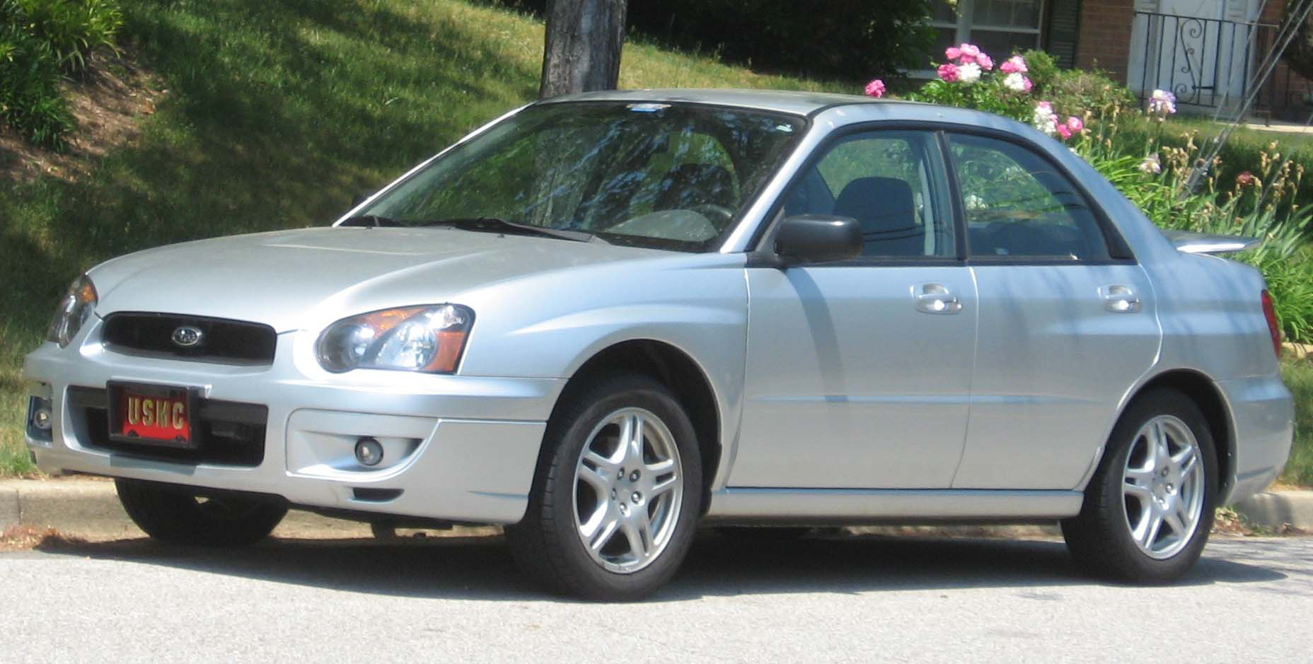 2004-2005 Subaru Impreza 2.5 RS, photographed in USA.